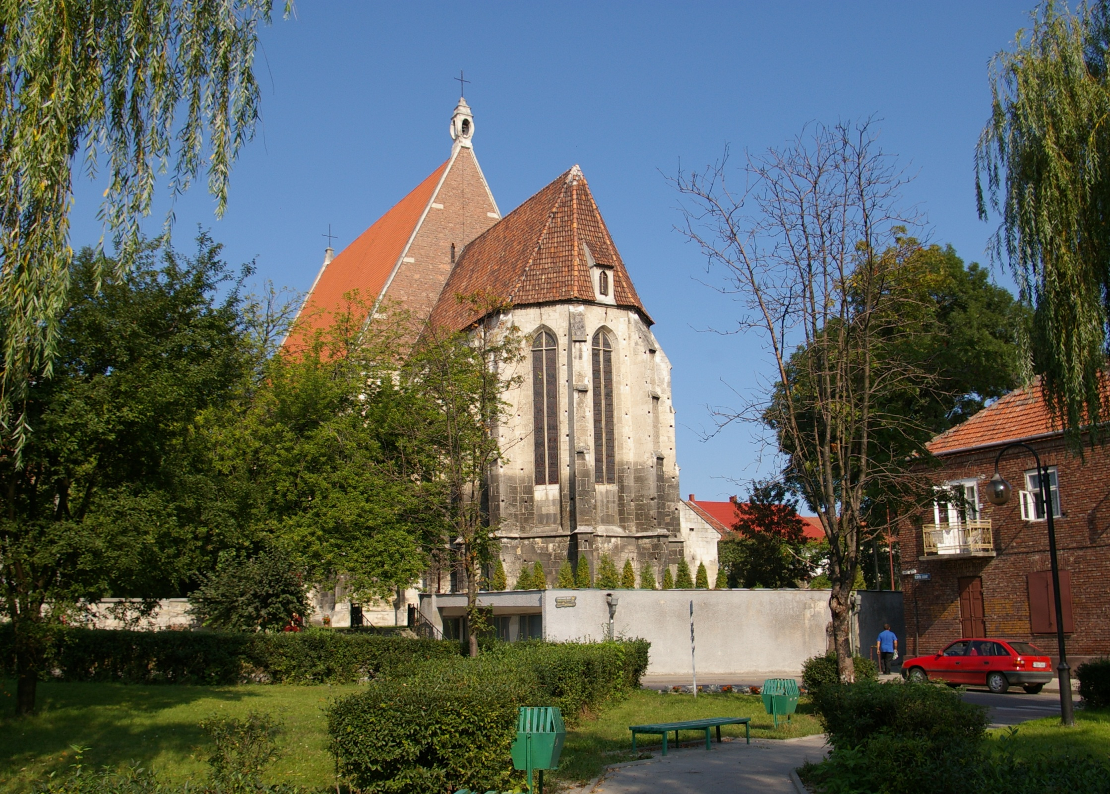 Basilica of the Birth of the Blessed Virgin Mary in Wiślica, Poland